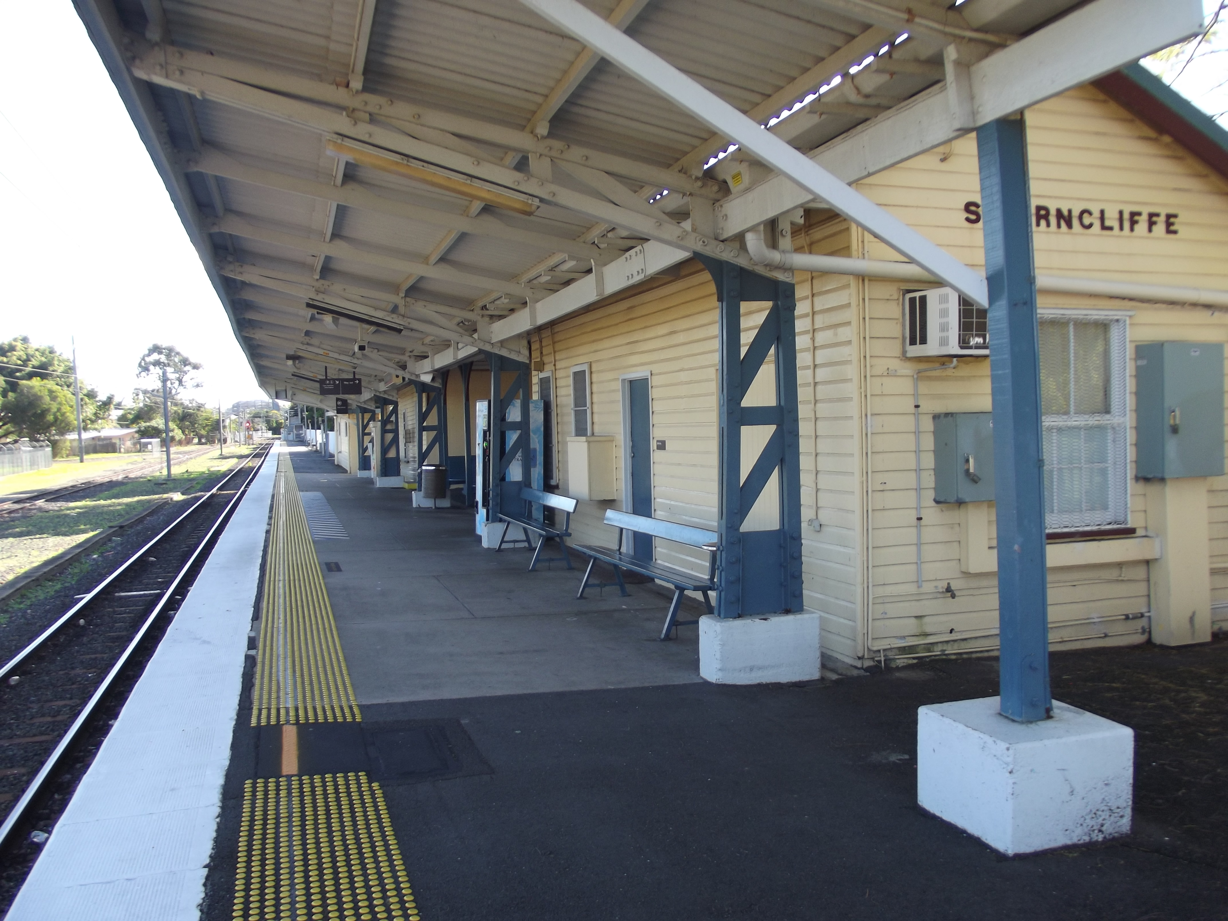 Station platform at Shorncliffe, looking towards the city.